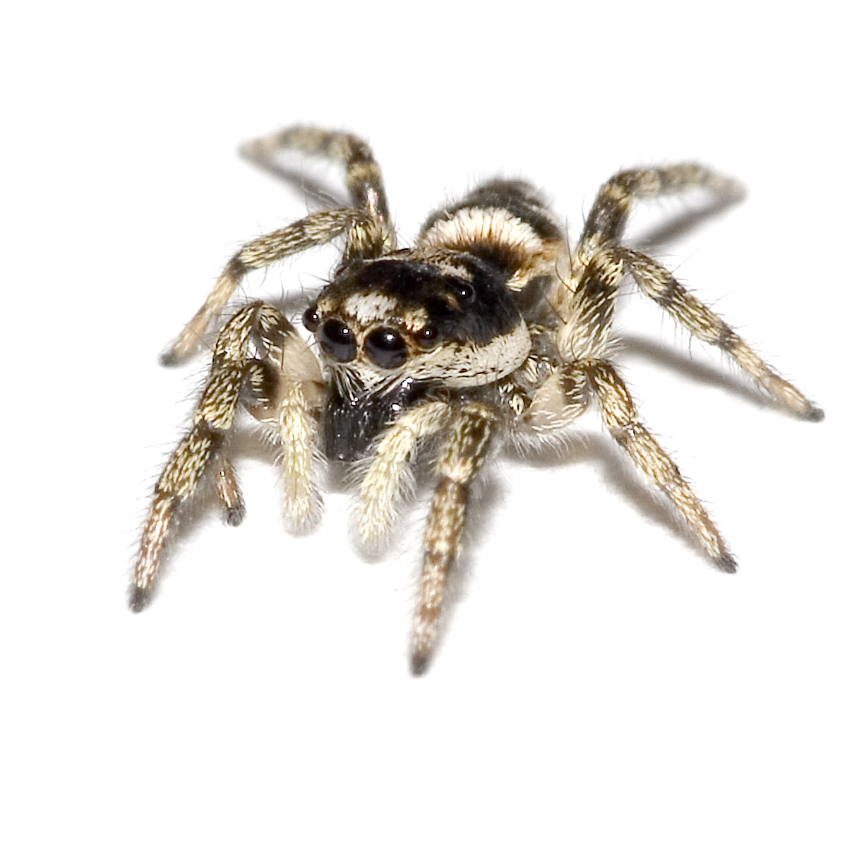 Zebra Jumper (Salticus scenicus)